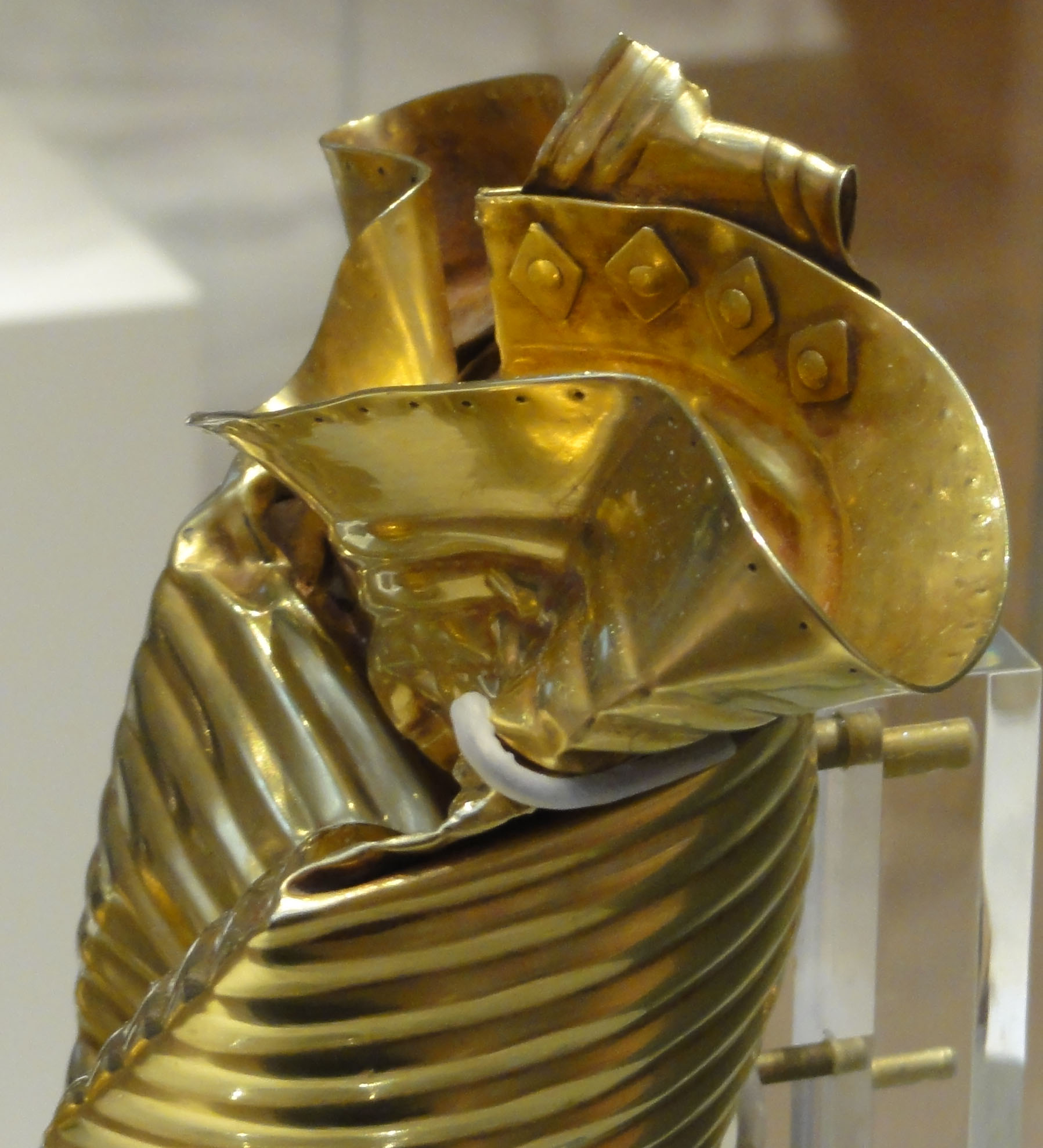 Detail of Ringlemere Cup showing rivets and lip decoration.